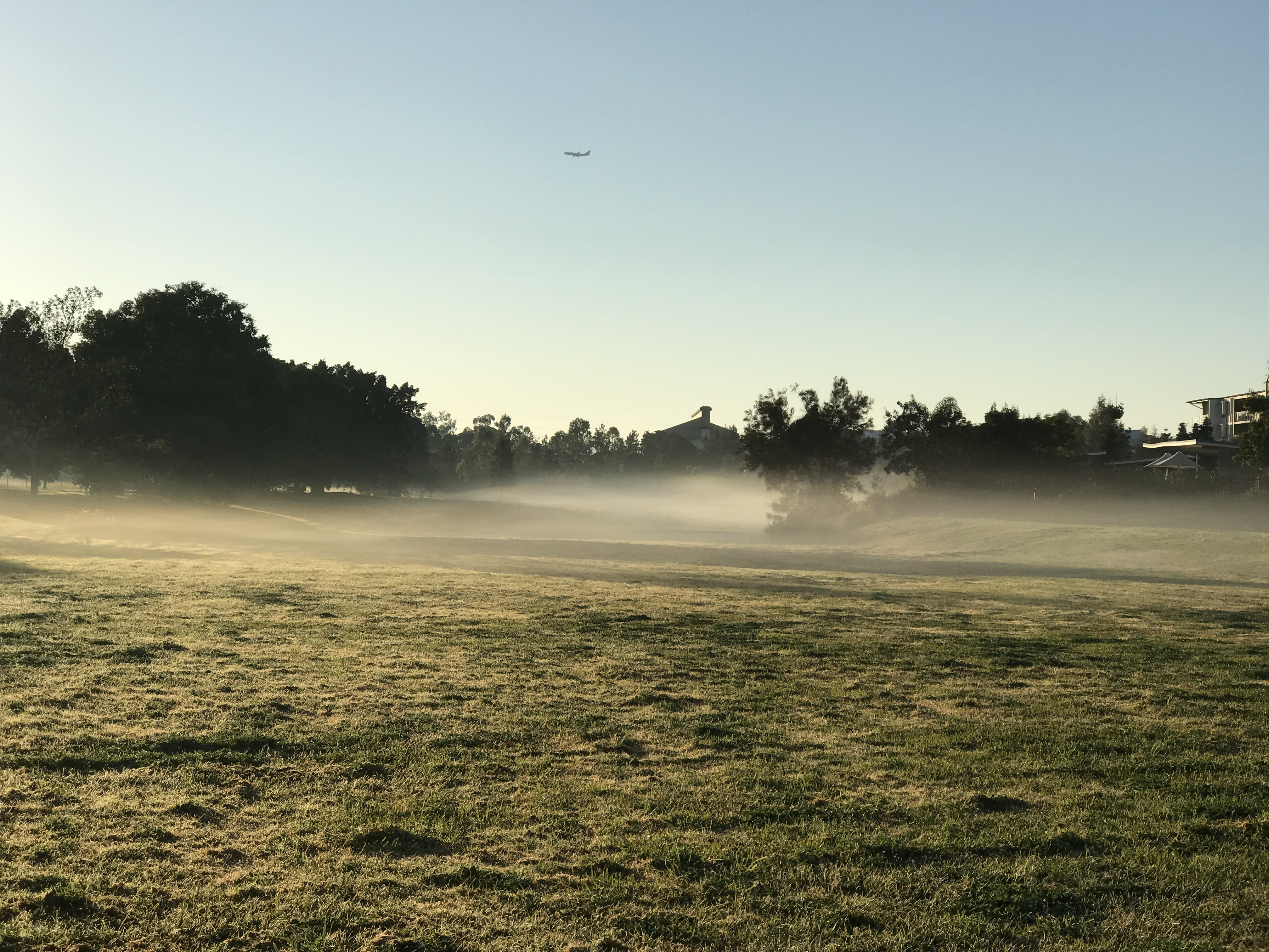 Morning fog at Thomas Street Park, Sherwood, Queensland